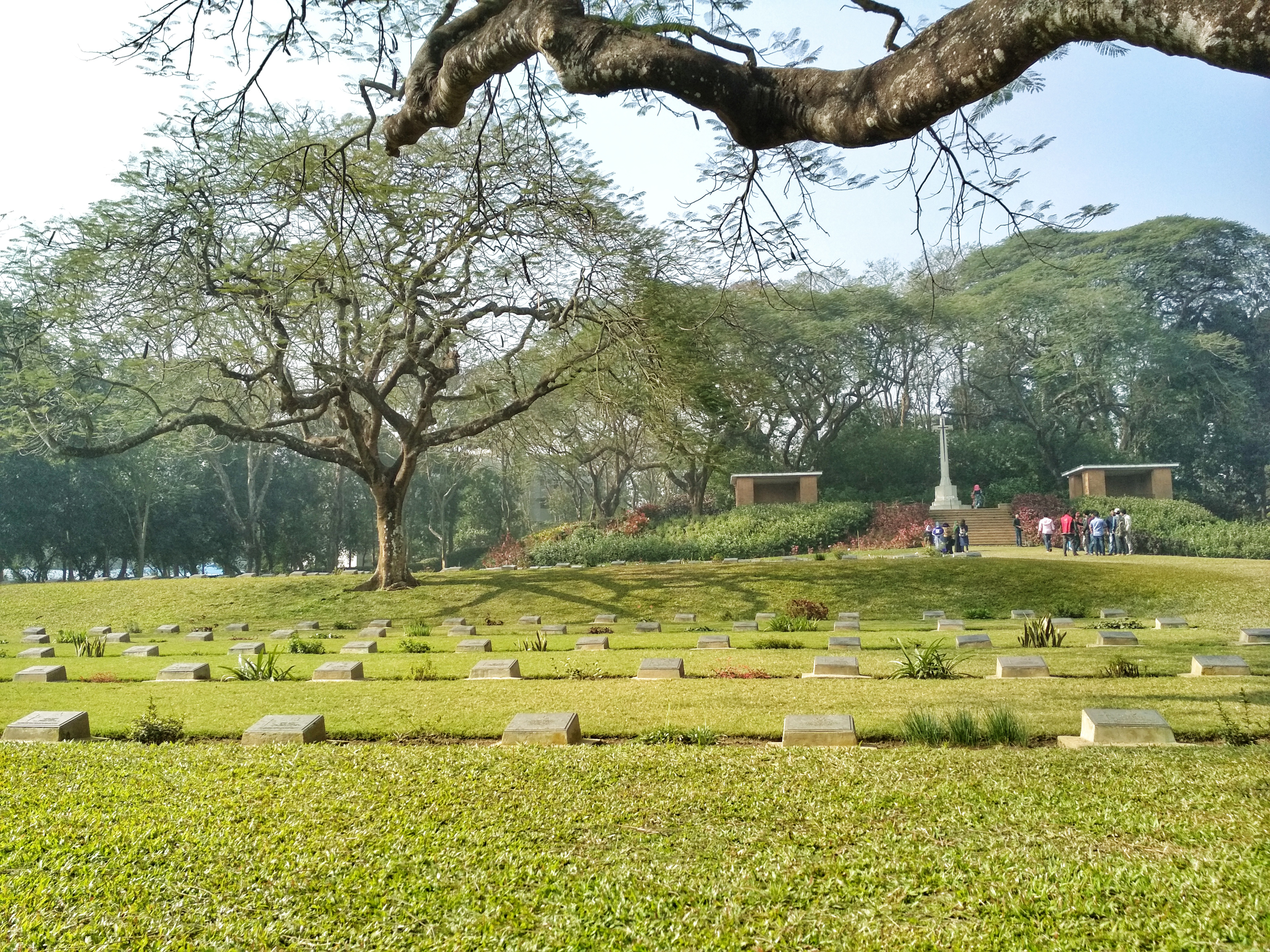 The Mainamati War Cemetery is a war cemetery and a memorial in Comilla, Bangladesh, for Second World War graves from nearby areas during the Second World War. The cemetery contains 736 Commonwealth burials of the Second World War. It was established and maintained by the Commonwealth War Graves Commission (CWGC), to pay tribute to those who sacrificed their lives in World War II. It is situated in the Comilla Cantonment area.